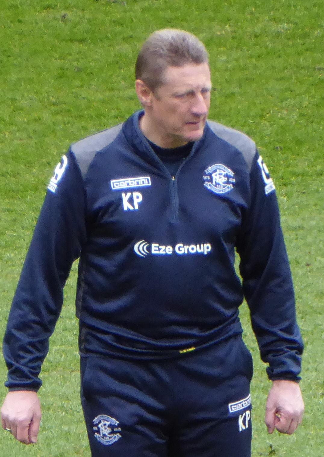 Kevin Poole, goalkeeping coach of Birmingham City Football Club, warming up before a match in April 2016